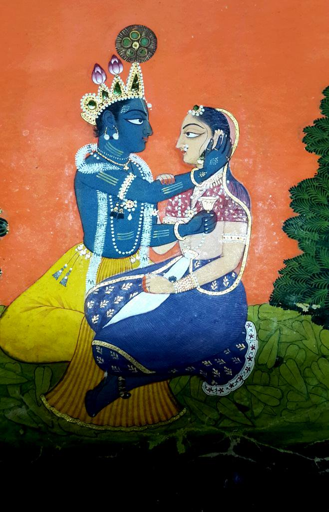 Basholi style Gita govinda series